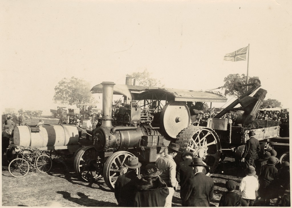 People gathered around a steam driven excavator